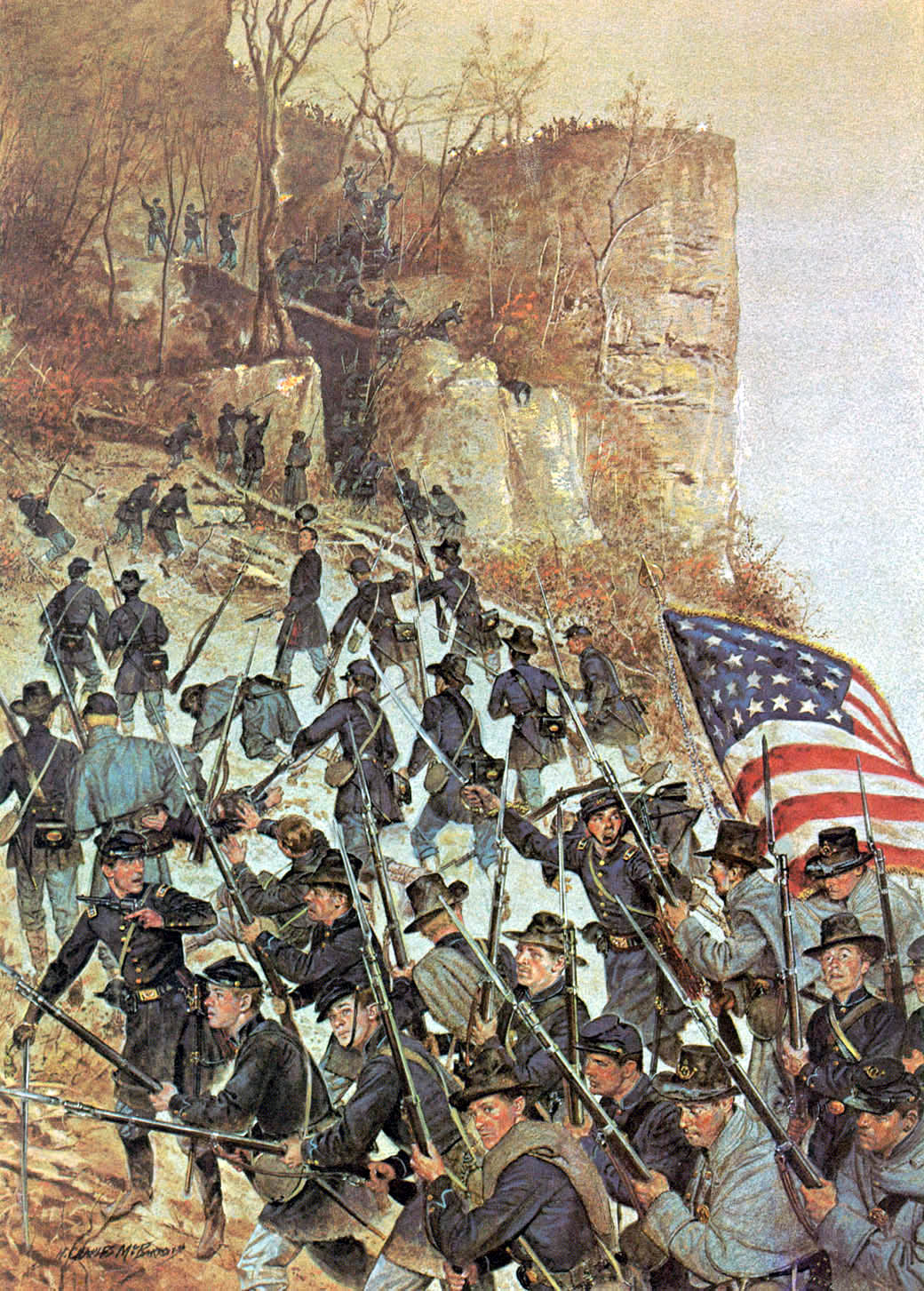 The American Soldier, 1862 - by H. Charles McBarron: The Citizens Corps of Wisconsin at South Mountain, Maryland.With the outbreak of the Civil War in the United States, a number of ethnically-oriented militia groups responded to President Lincoln's call for volunteers to preserve the union. One such unit to volunteer was a predominantly German-American unit known as the Citizens Corps of Milwaukee. On 25 and 27 April 1861, the unit officers, William Lindwurm, Frederick Schumacher, and Werner Von Bachelle were commissioned captain, first lieutenant, and second lieutenant of the company, respectively. By 10 May 1861, the company was officially mustered into the evolving 6th Wisconsin Regiment as Company F, bringing the total of German-Americans in the Union Army to almost thirty-six thousand.On 16 July 1861, the 6th Wisconsin Volunteers departed for Washington, D.C. Here, the regiment was brigaded with the Union Army's 2d and 7th Wisconsin Regiments and the 19th from Indiana, under Brig. Gen. John Gibbon. The brigade, in 1862, achieved increased efficiency and military prowess and a distinctive uniform that resulted in the nickname "Black Hat Brigade" from fellow Union soldiers. Following the brigade's determined assault upon the heights at Turner's Gap at South Mountain, Maryland, Gibbon's brigade won a new title, "The Iron Brigade of the West". Three days later, the unit proved its worth once again by bravely assaulting Lee's forces in one of the bloodiest battles of the war.Shown in the painting is the brigade assaulting the Confederate forces at Turner's Gap. The men of the 6th Wisconsin Volunteers are wearing dark blue frock coats with sky-blue trousers. A few are attired in grey overcoats. All are wearing either the black wool/felt hat with a sky-blue double looped cord or Model 1858 forage cap. Armed with the M1861 Springfield muzzle-loading rifle muskets, the men of the Wisconsin units prepare to meet the enemy at the summit.